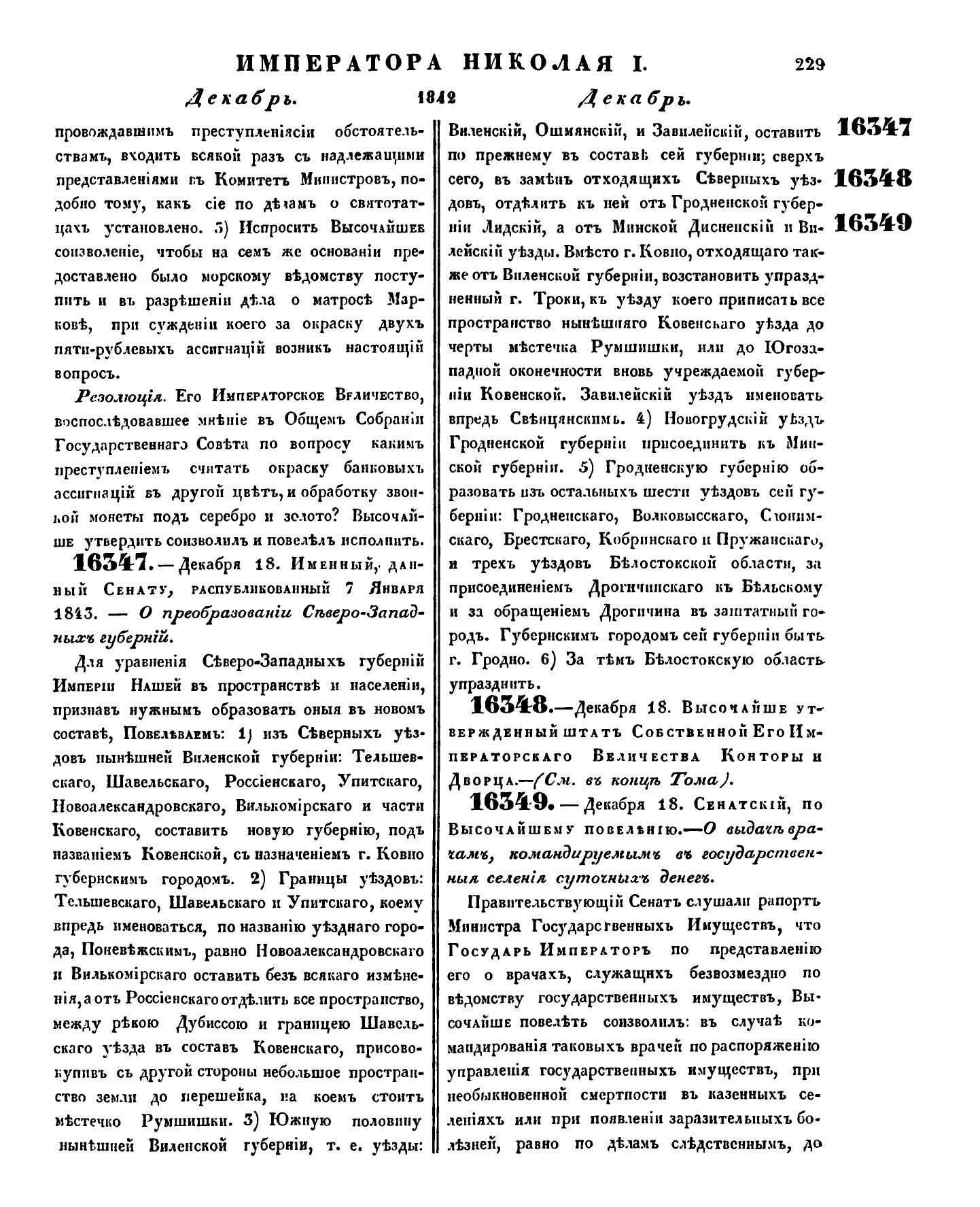 Complete Collection of Laws of the Russian Empire. Collect. 2. Т.17-2 nr 16347, 1842 AD